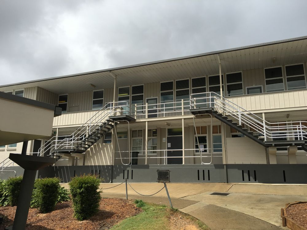 Hawksley Prefabricated School Building, Block E, from N (EHP, 2016)